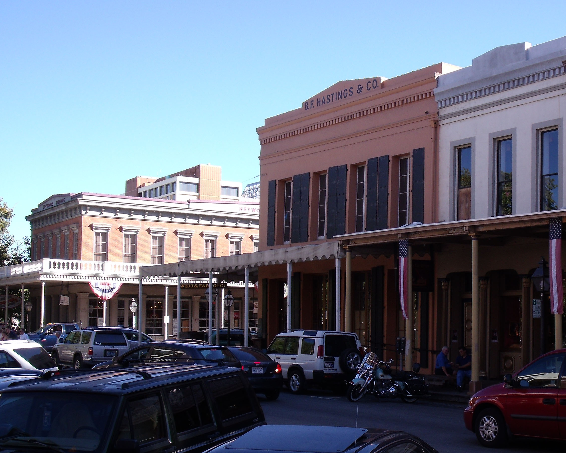 J St at 2nd St, Old Sacramento, California, including the B.F. Hastings Building (built 1853) in the centre.